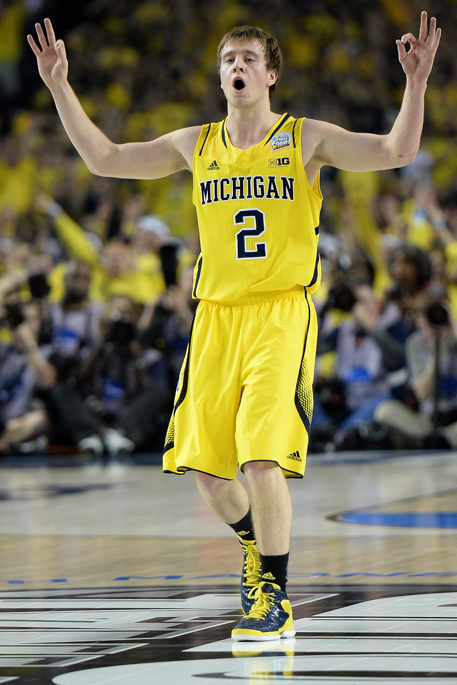 Spike Albrecht of the w:2012–13 Michigan Wolverines men's basketball team